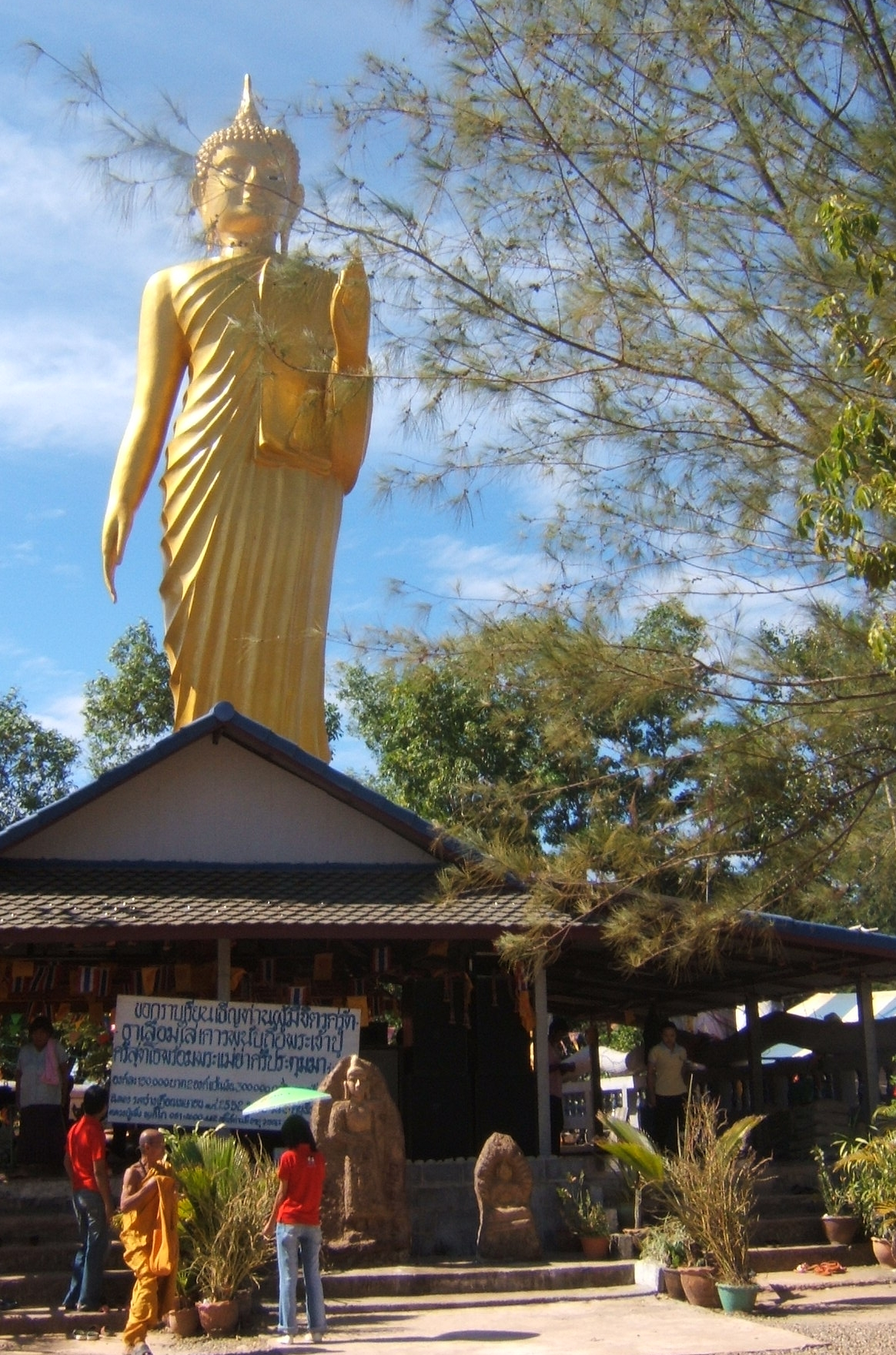 Main statue in Wat Kham Chanot, Udon Thani Province, Thailand